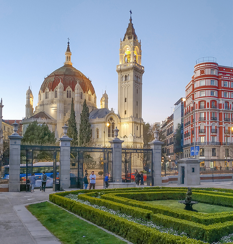 Church of San Manuel y San Benito seen from El Retiro Park, Madrid, España